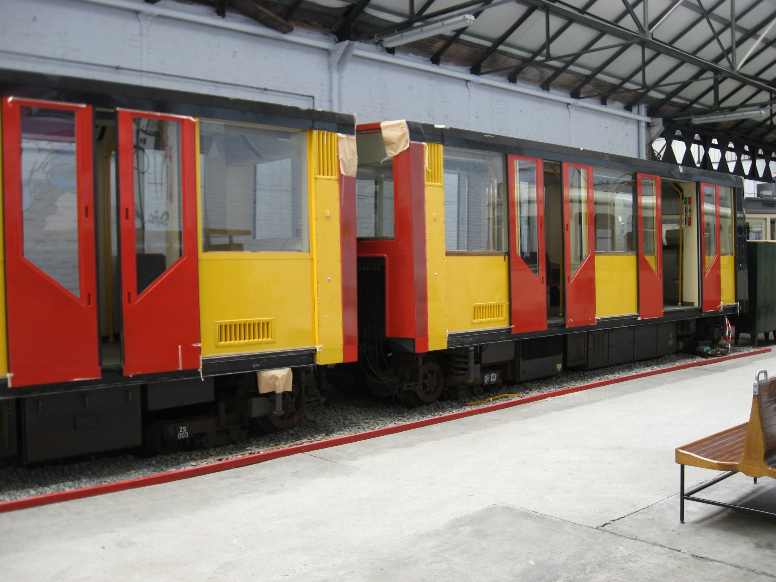 Demo-train of an [automatic metro project T.A.U. in Liege. This project was in the 1980's. The trains could take very scharp corners. Very little is known about it.